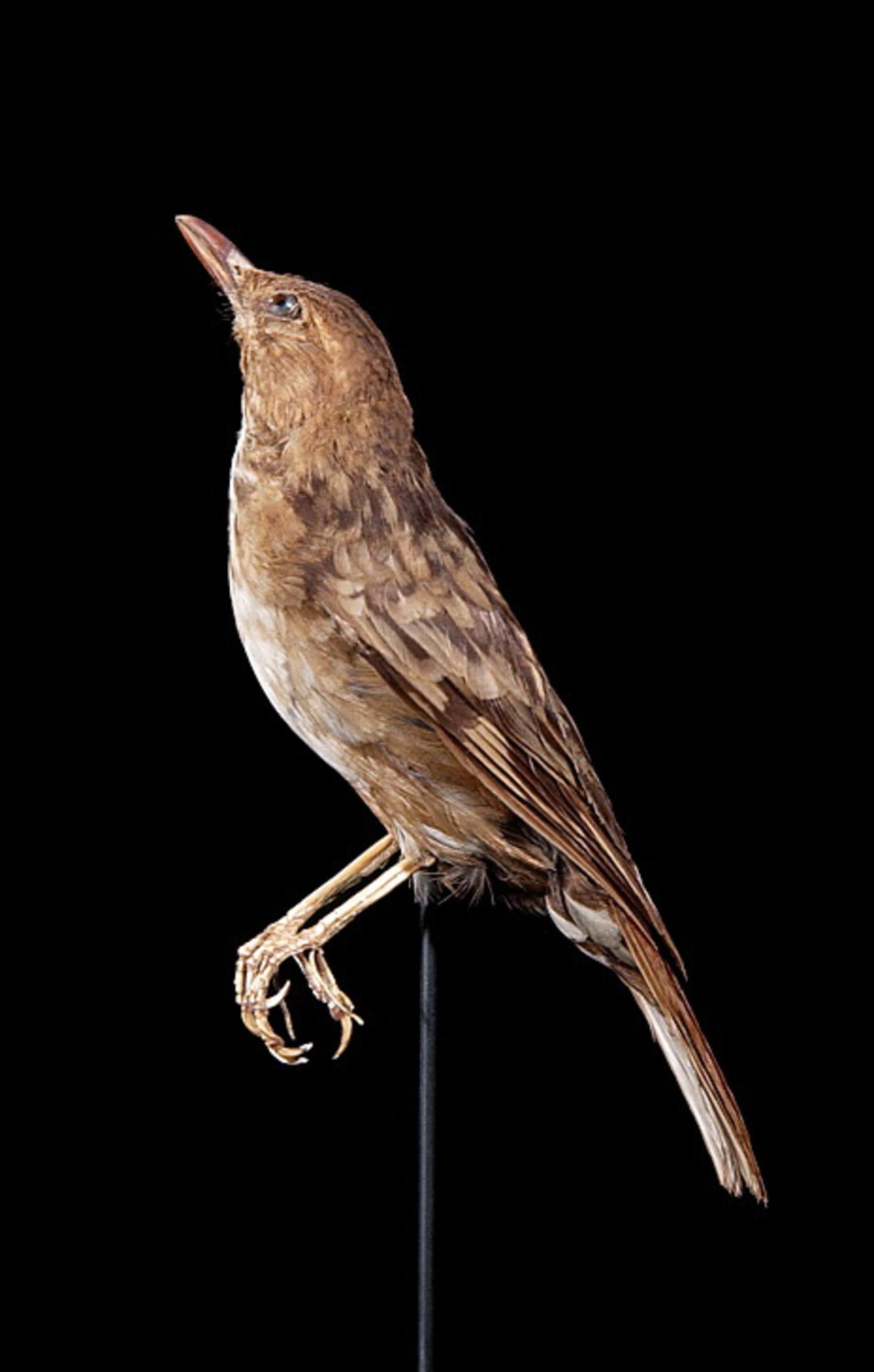 Zoothera terrestris (Kittlitz, 1831)